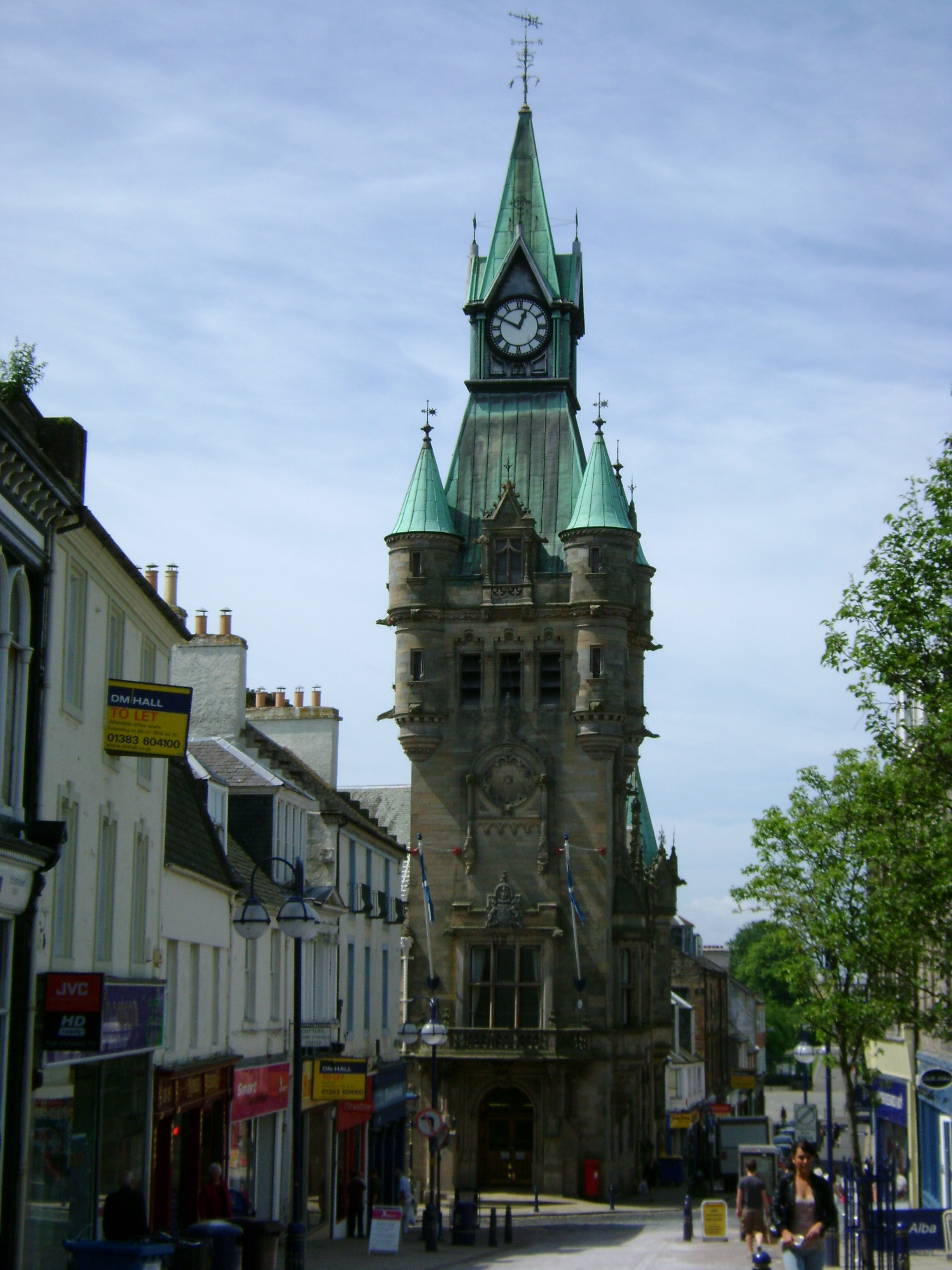 Dunfermline City Chambers, High Street & Kirkgate, Dunfermline, Fife